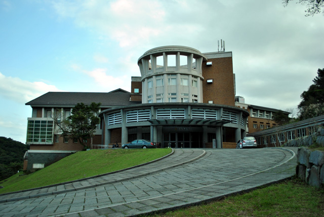 The main entrance of the Dharma Drum Buddhist College.